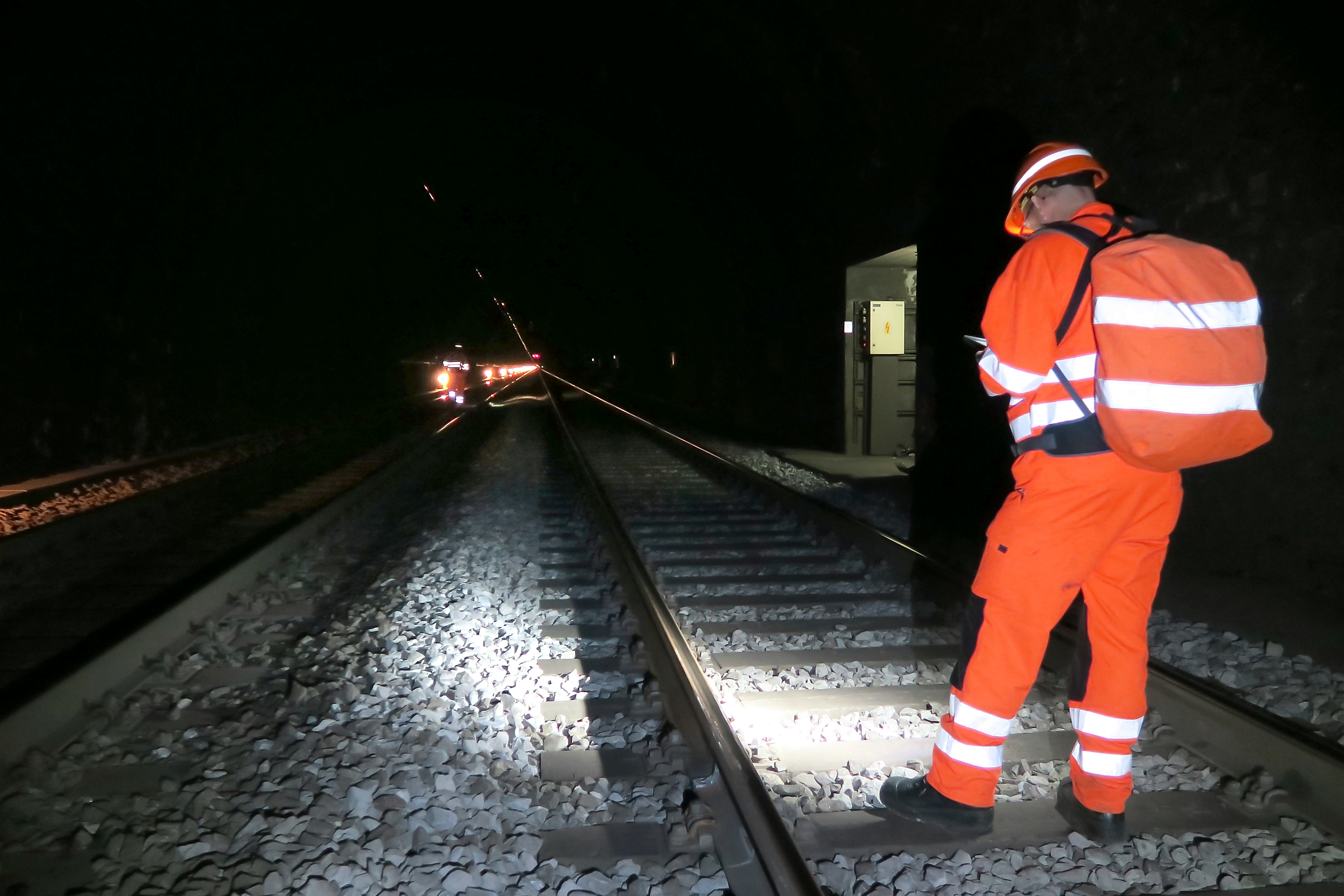 Lineman Richi and Markus ahead on the way to Airolo. Switzerland, Oct 12, 2015. (25/49)